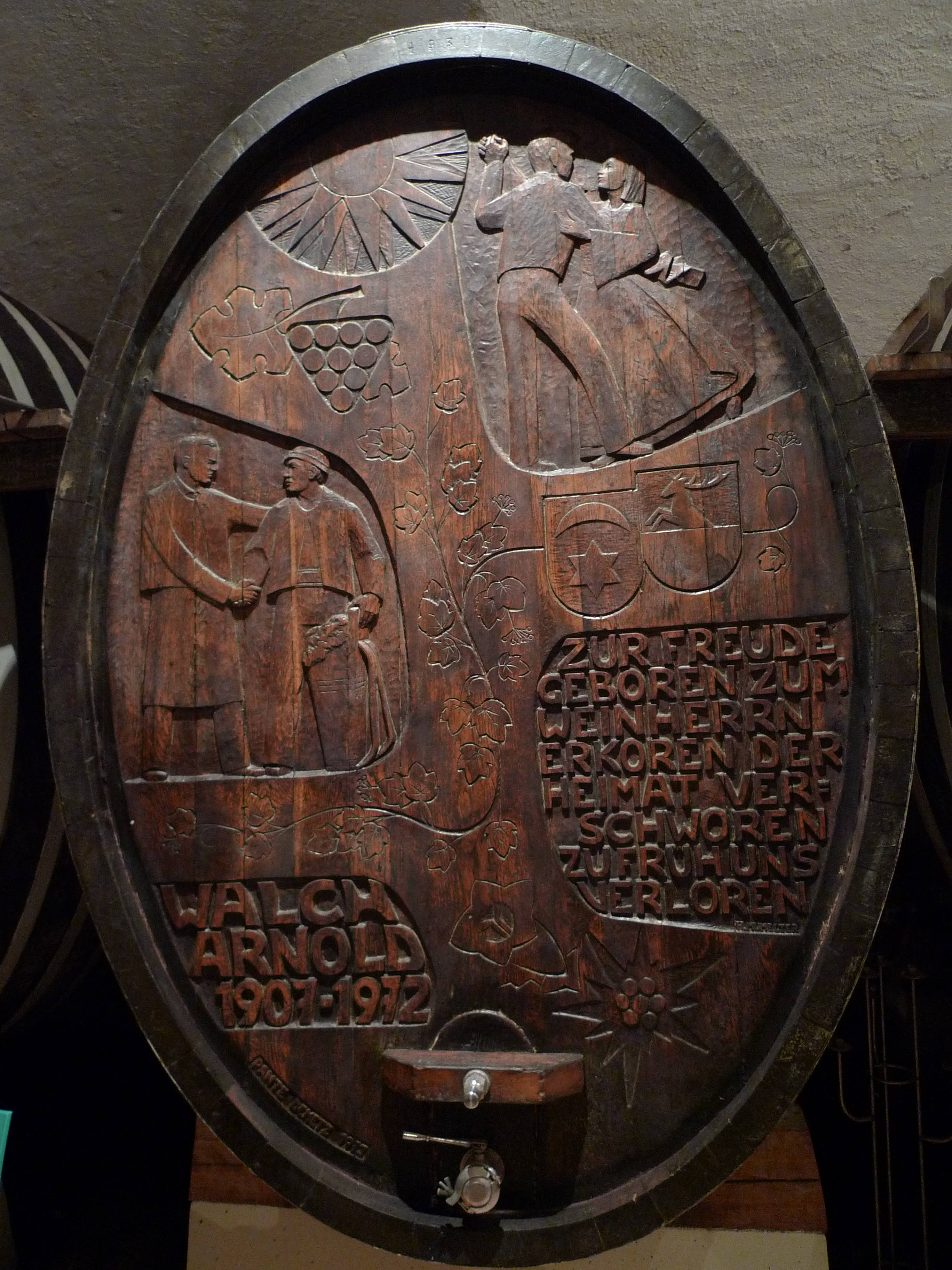 Cantina Elena Walch, Tramin, South Tyrol, Italy